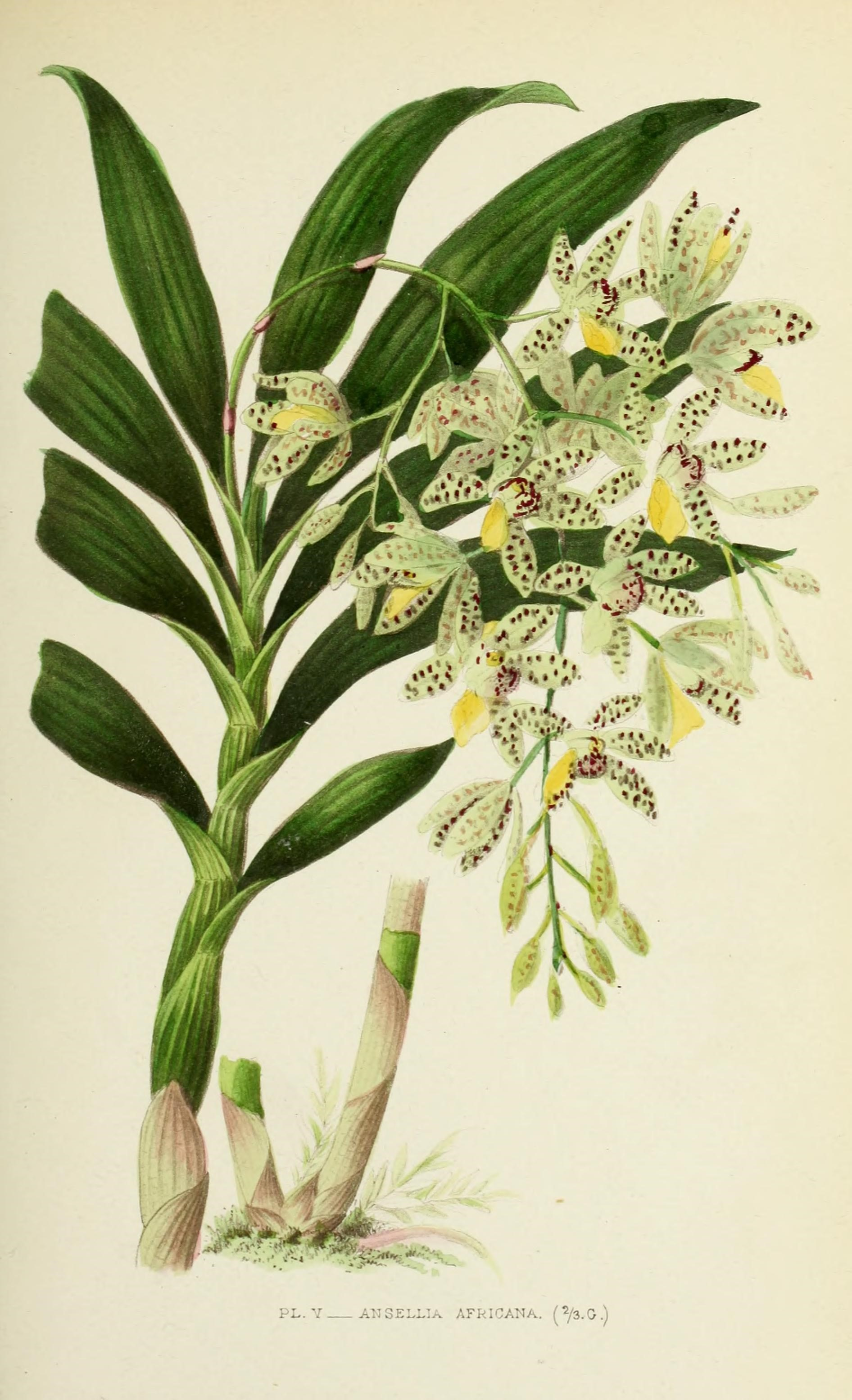 Les orchidées,. Paris,J. Rothschild,1880.. This botanical illustration of orchids is from 1880 publication by E. De Puydt, Les Orchidees, Editor - J. Rothschild; The scientific botanical name of each orchid is at the bottom of the plate. Archived at (1) Biodiversity Heritage Library; (2) Botanical Museum of Harvard University. For text and discussion The photograph published in 1880 qualifies for license under PD-Art